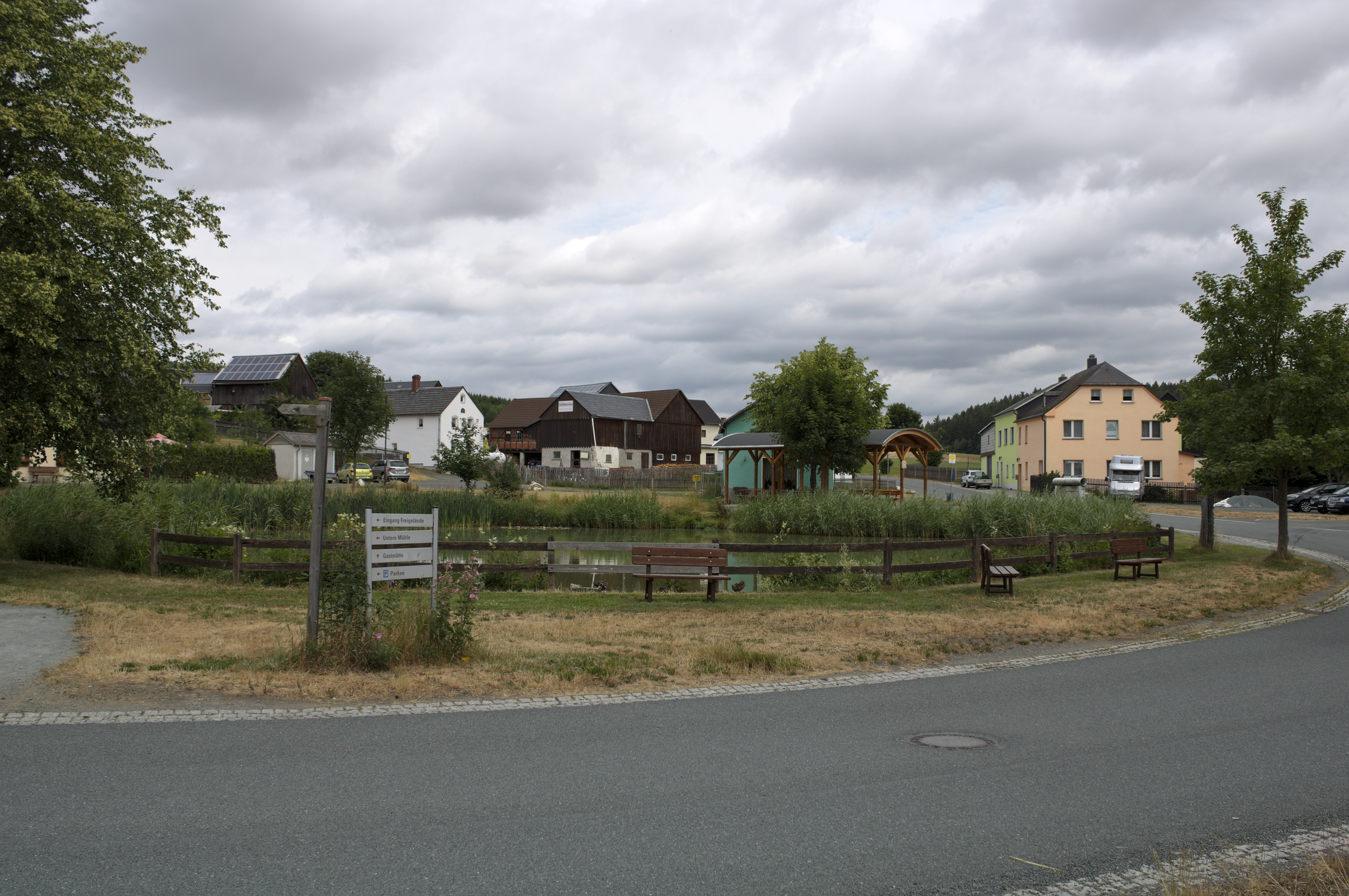 Freilichtmuseum_Moedlareuth in 2019